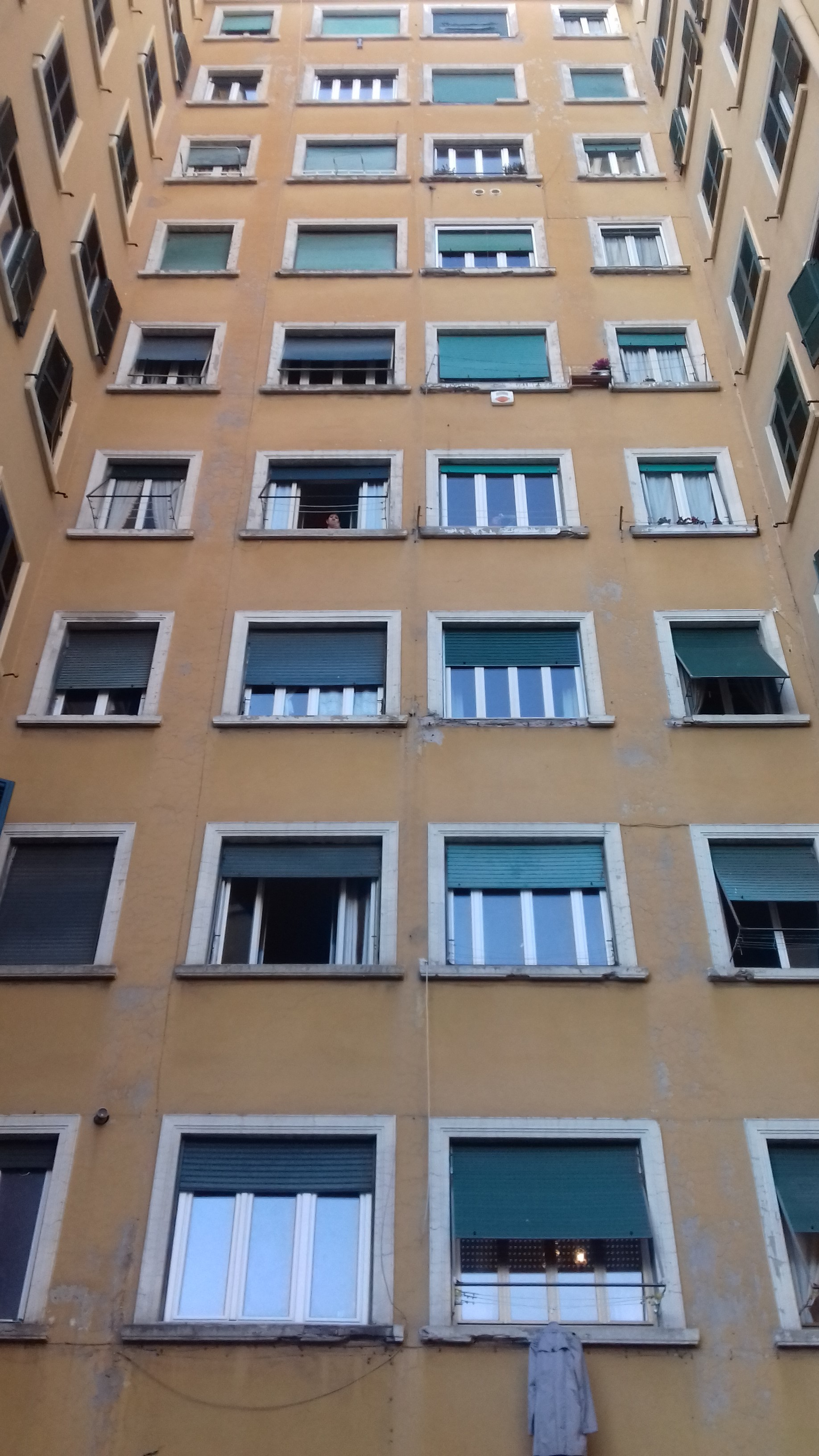 Nine storeys high density apartment building in via Catania in Rome. It was built in the late 1930s.